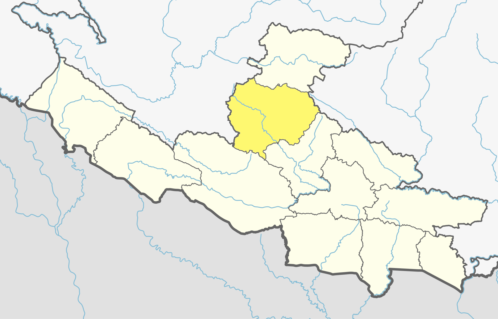 Rolpa District